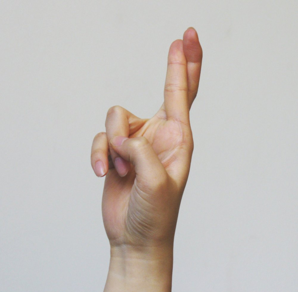 Chinese Number 10 with crossed index- and middlefinger